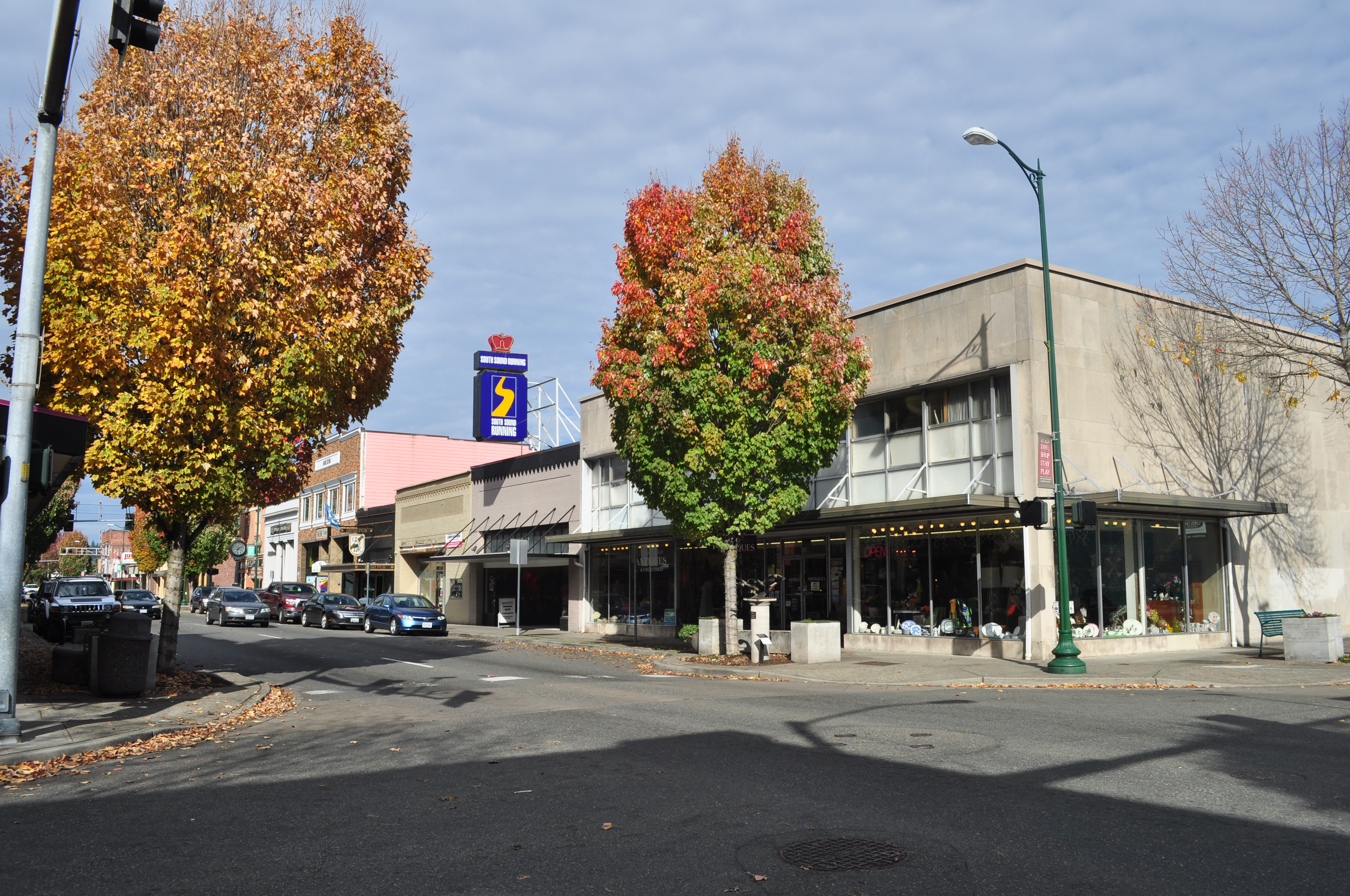 Looking roughly north at the east side of 100 block of s. Meridian, Puyallup, Washington. Nearest building on right (now Victoria Sells Antiques) is the former J.C. Penney's at the corner of E. Meeker, built 1948.